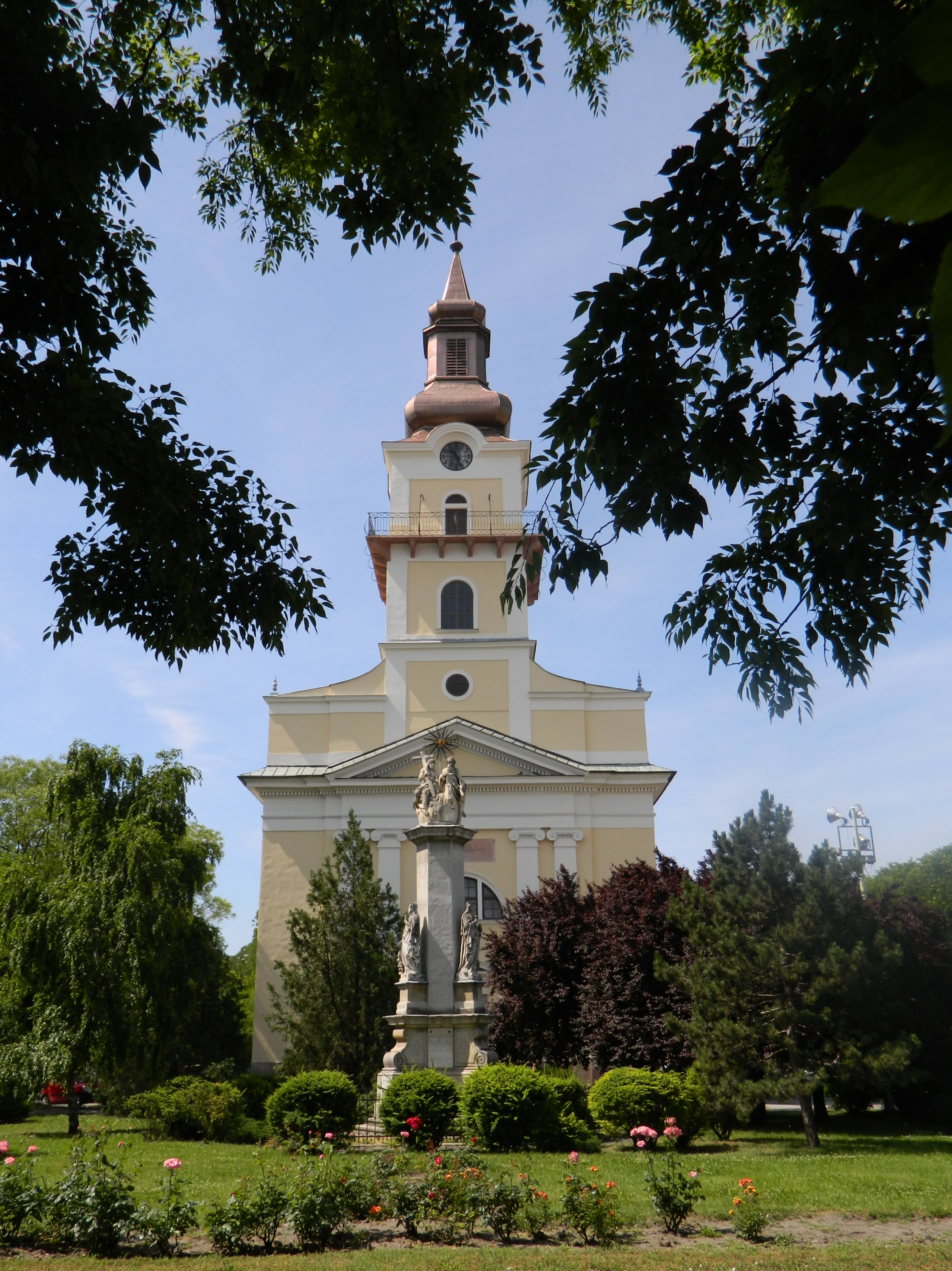 Roman Catholic church in Cegléd